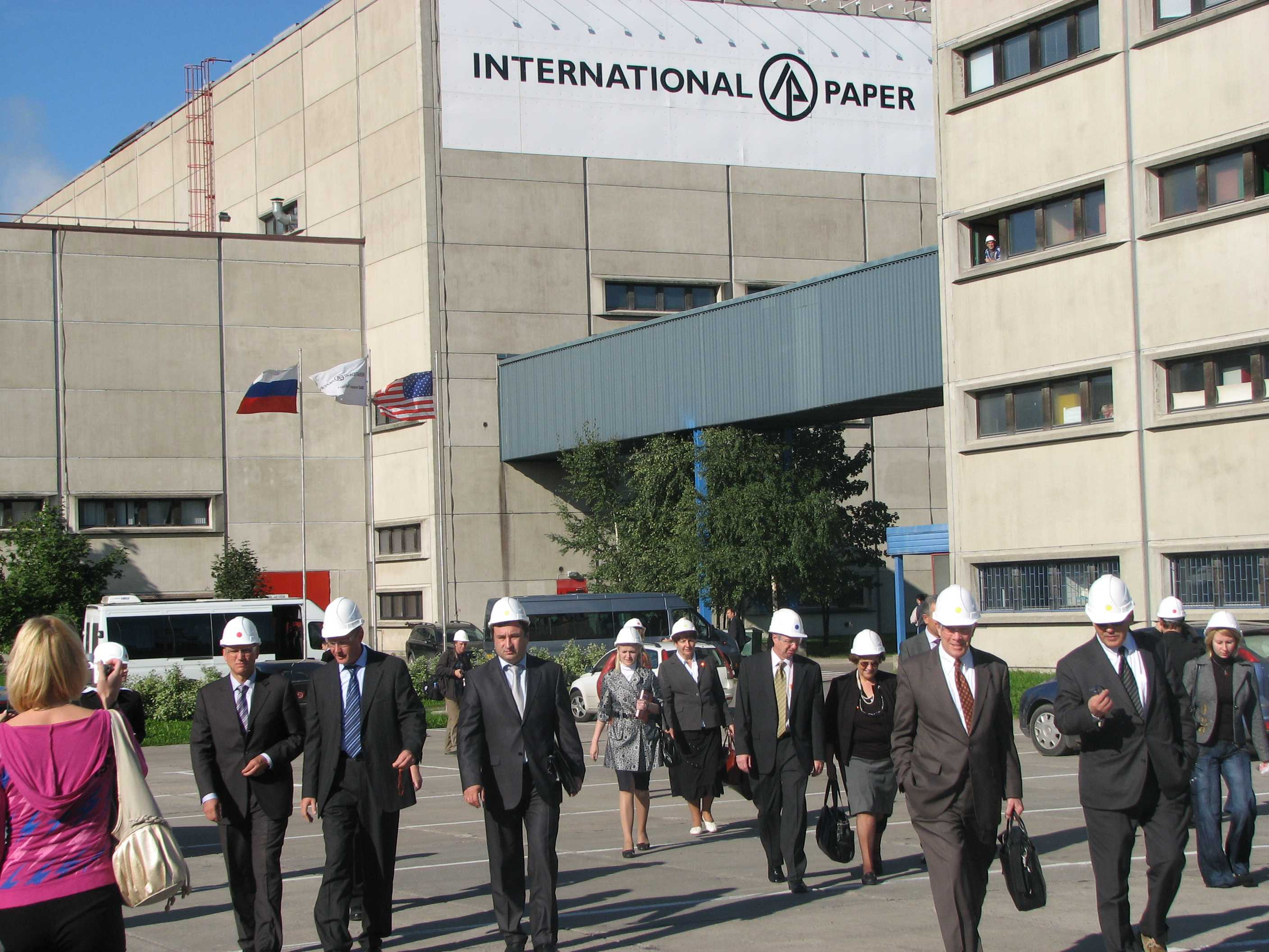 AMERICAN CHAMBER OF COMMERCE AWARDS INTERNATIONAL PAPER RUSSIA